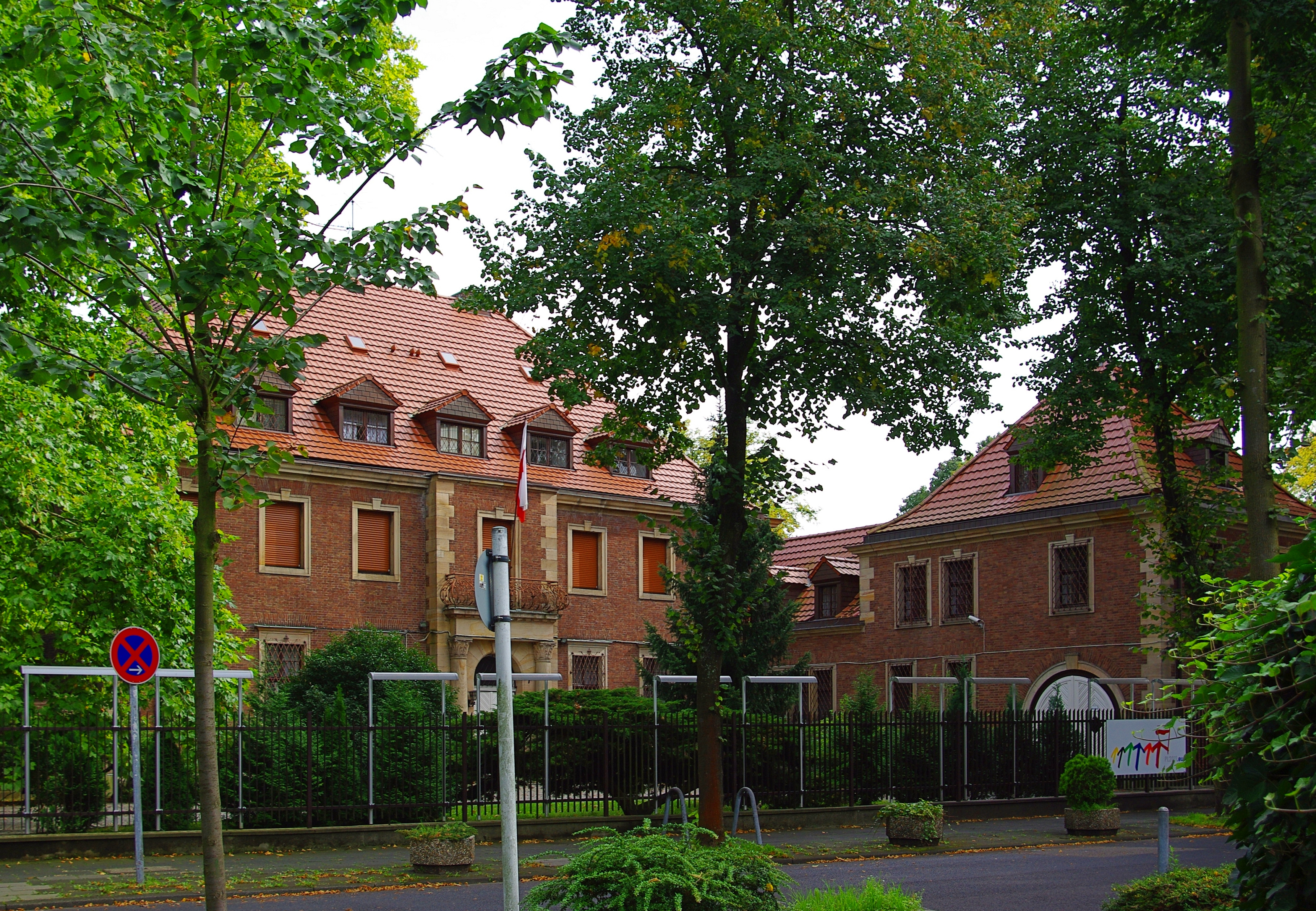 Lindenallee 7, Cologne-Marienburg